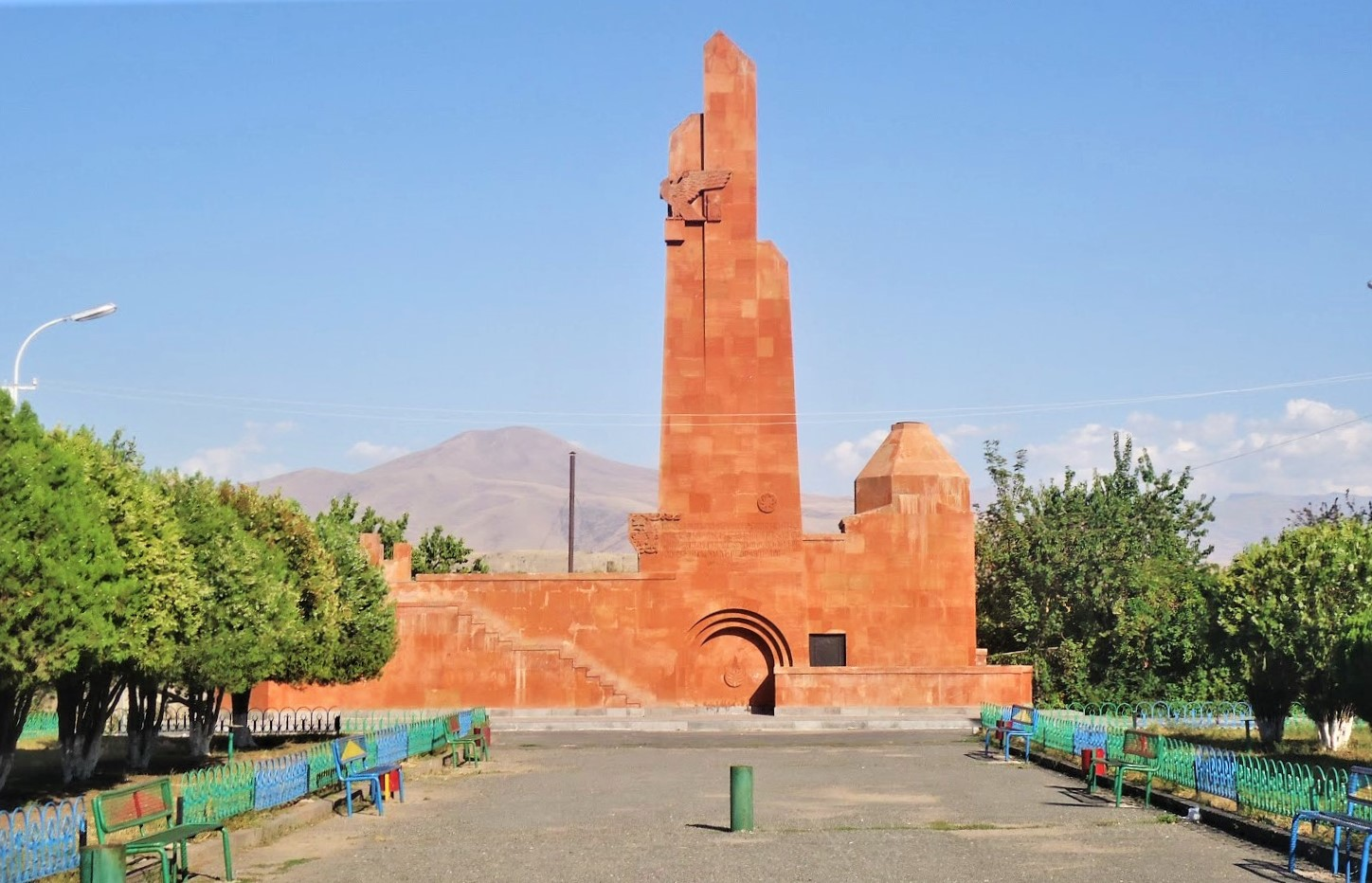 Nor Hachen memorial, Armenia 4/1